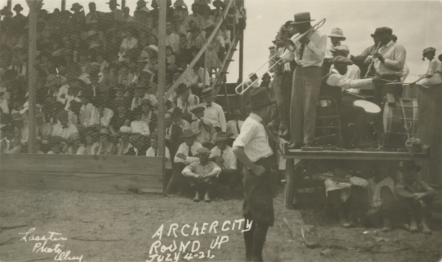 Title: Archer City Round Up July 4 - 21. Creator: Lasater, John Bethel, 1886-1971 Date: July 4, 1921 Part Of: George W. Cook Dallas-Texas Image Collection Place: Archer City, Archer County, Texas Physical Description: 1 photographic print (postcard): gelatin silver; 9 x 14 cm File: a2014_0020_3_3_d_0106_r_archerroundup.jpg Rights: Please cite DeGolyer Library, Southern Methodist University when using this file. A high-resolution version of this file may be obtained for a fee. For details see the web page. For other information, . For more information and to view the image in high resolution, see: View the George W. Cook Dallas-Texas Image Collection